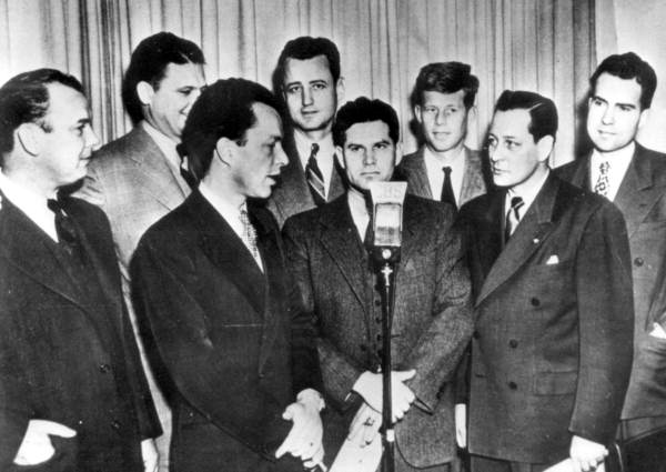 Back row (L-R): ?, ?, George A. Smathers, John F. Kennedy, Richard M. Nixon.